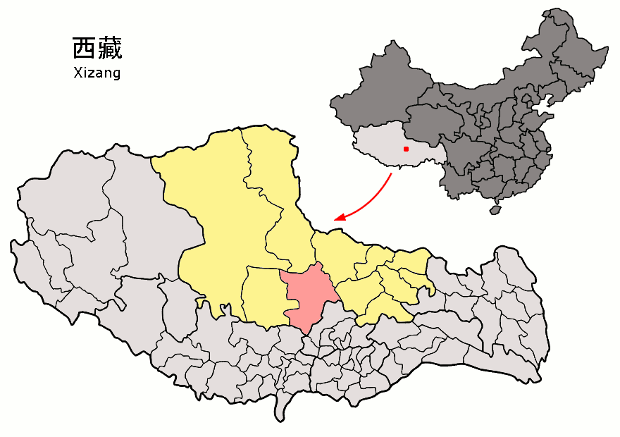 Location of Baingoin County (pink) and Nagchu Prefecture (yellow) within Tibet (Xizang) autonomous region of China